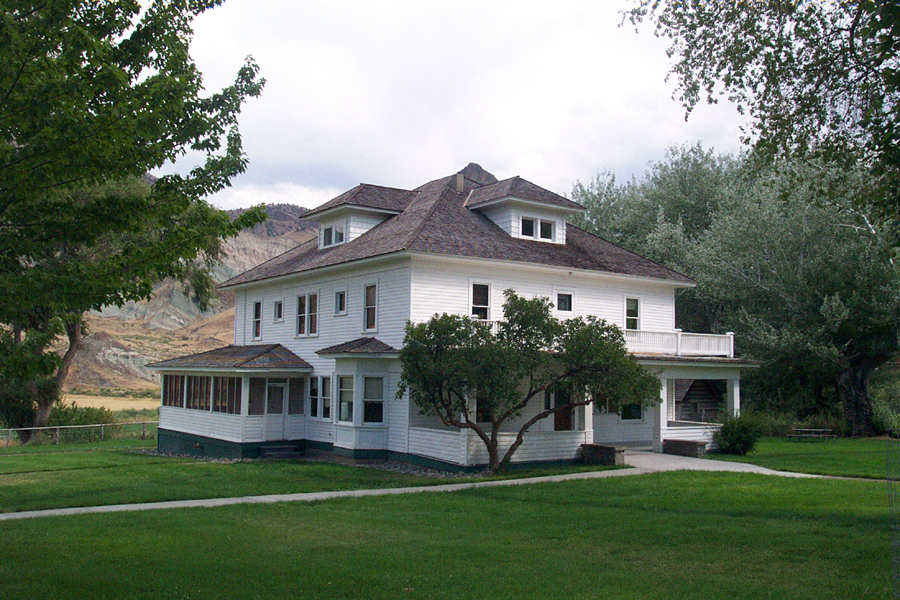 Cant Ranch House at the John Day Fossil Beds National Monument in the U.S. state of Oregon